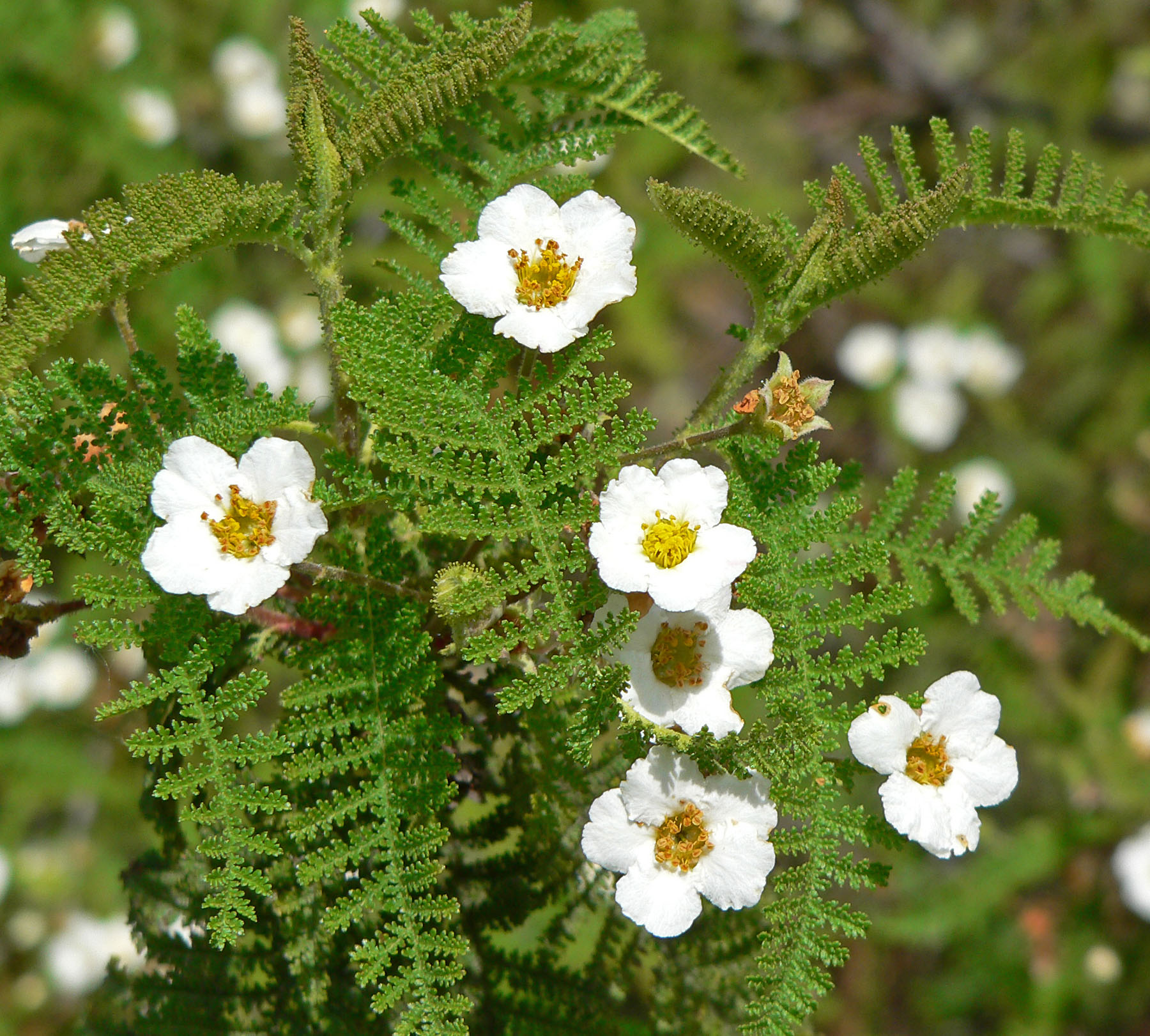 Photo of Chamaebatia australis at the Regional Parks Botanic Garden, Berkeley, California